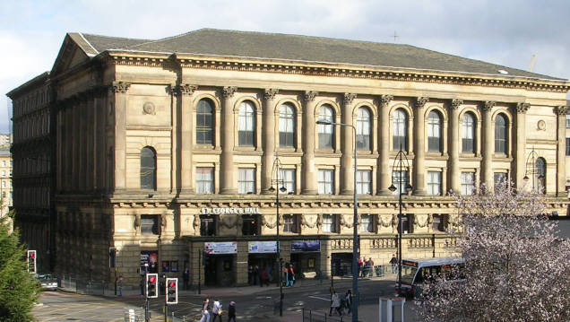 St George's Hall, Bradford Built as a concert hall in the early 1850s and still in use as such.